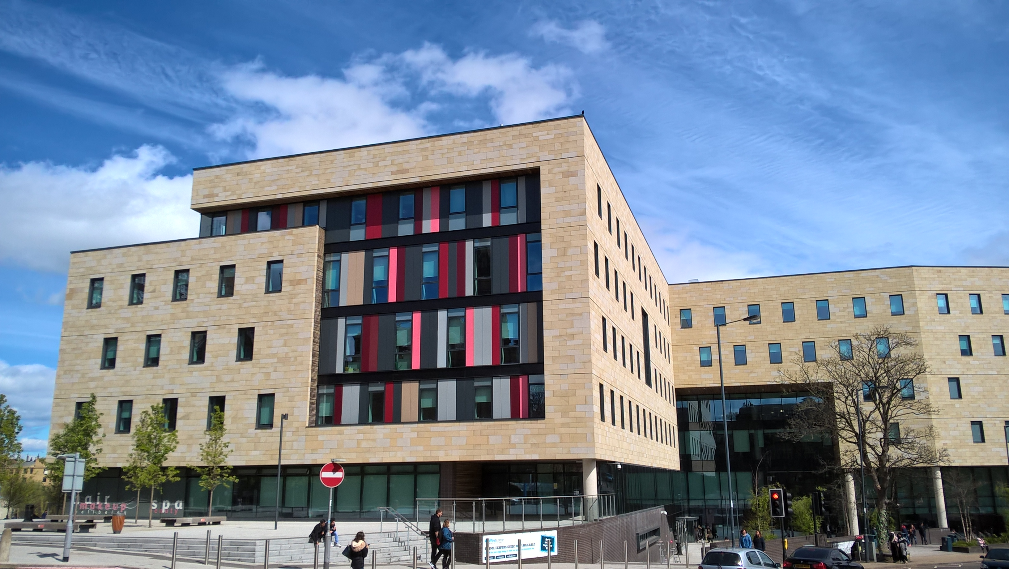 David Hockney Building Bradford Colllege, viewed from Great Horton Road.